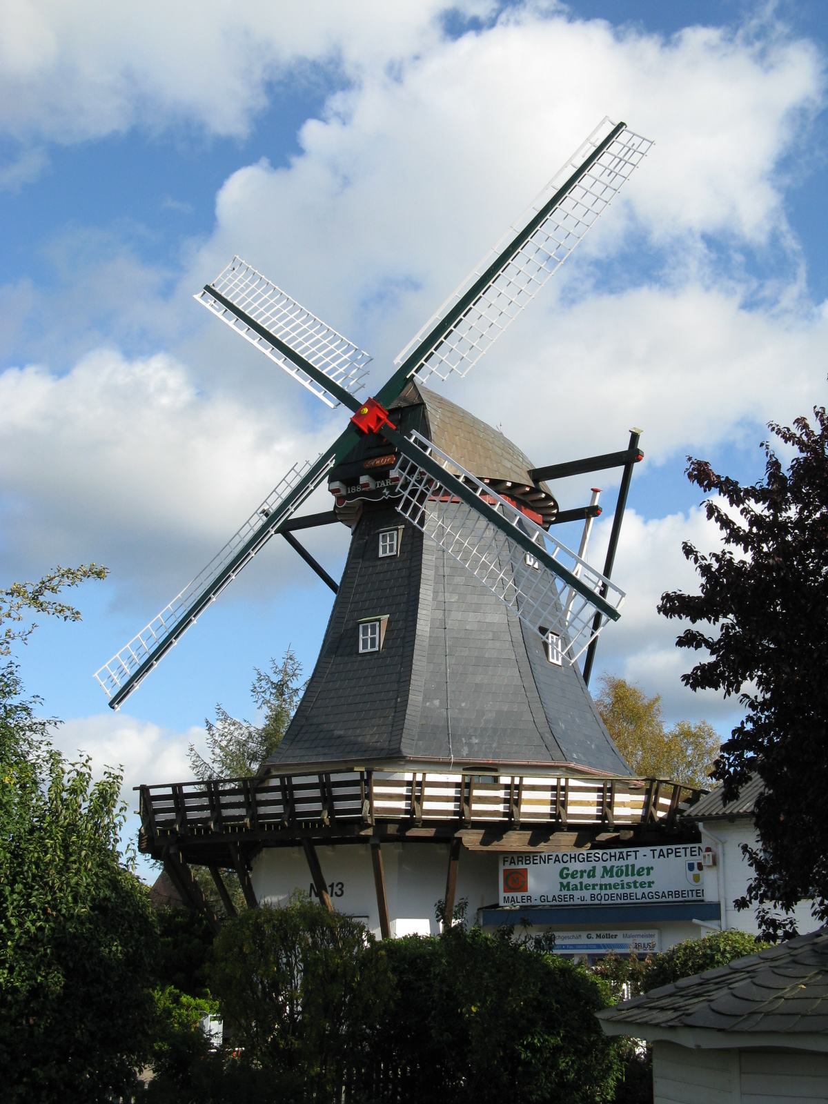 Windmill in Tarp, Schleswig-Holstein, Germany